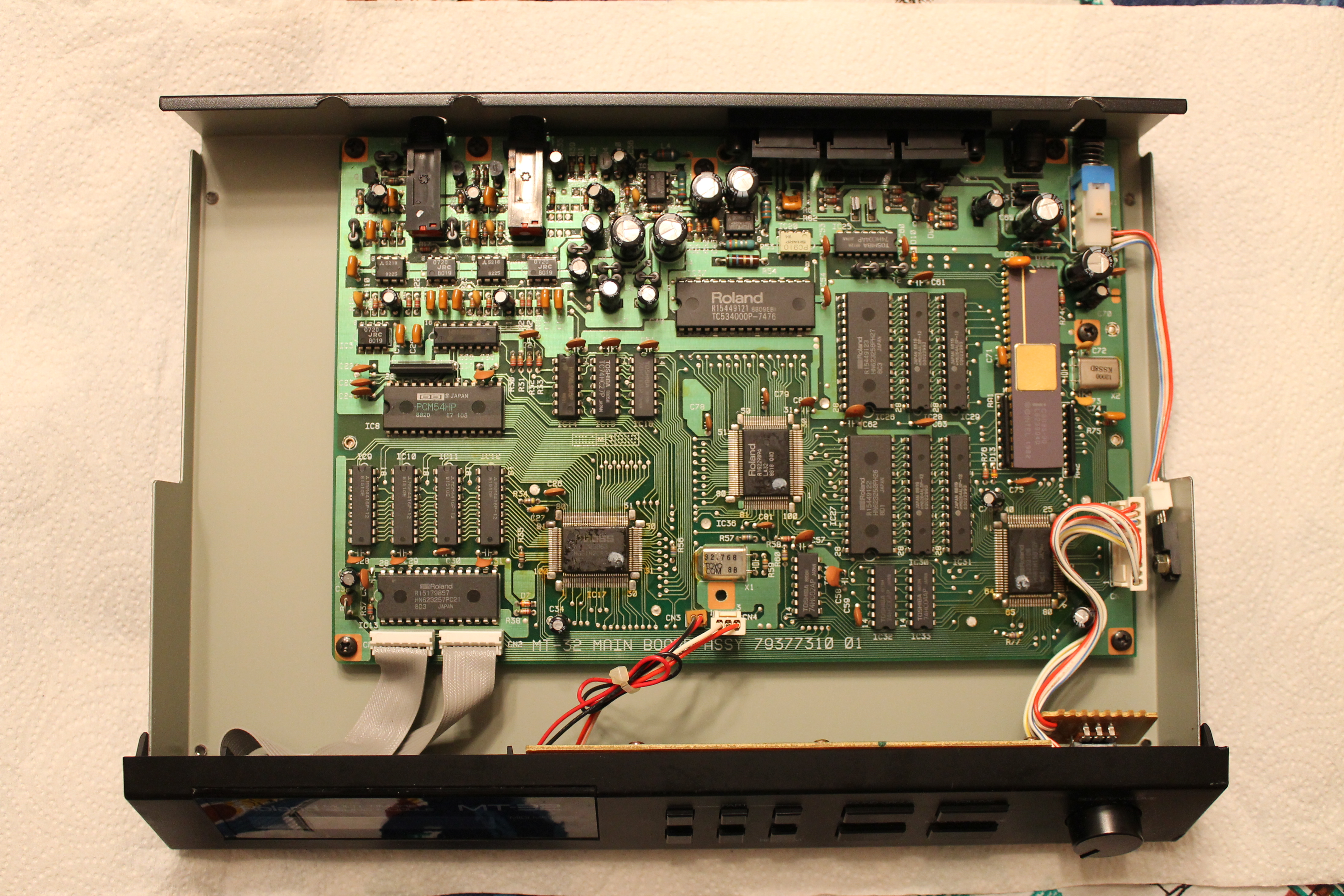 Photo is of an "Oldtype" Revision 1 PCB Roland MT-32 Multi-Timbre Sound Module, taken from above the MT-32 with the top case removed.